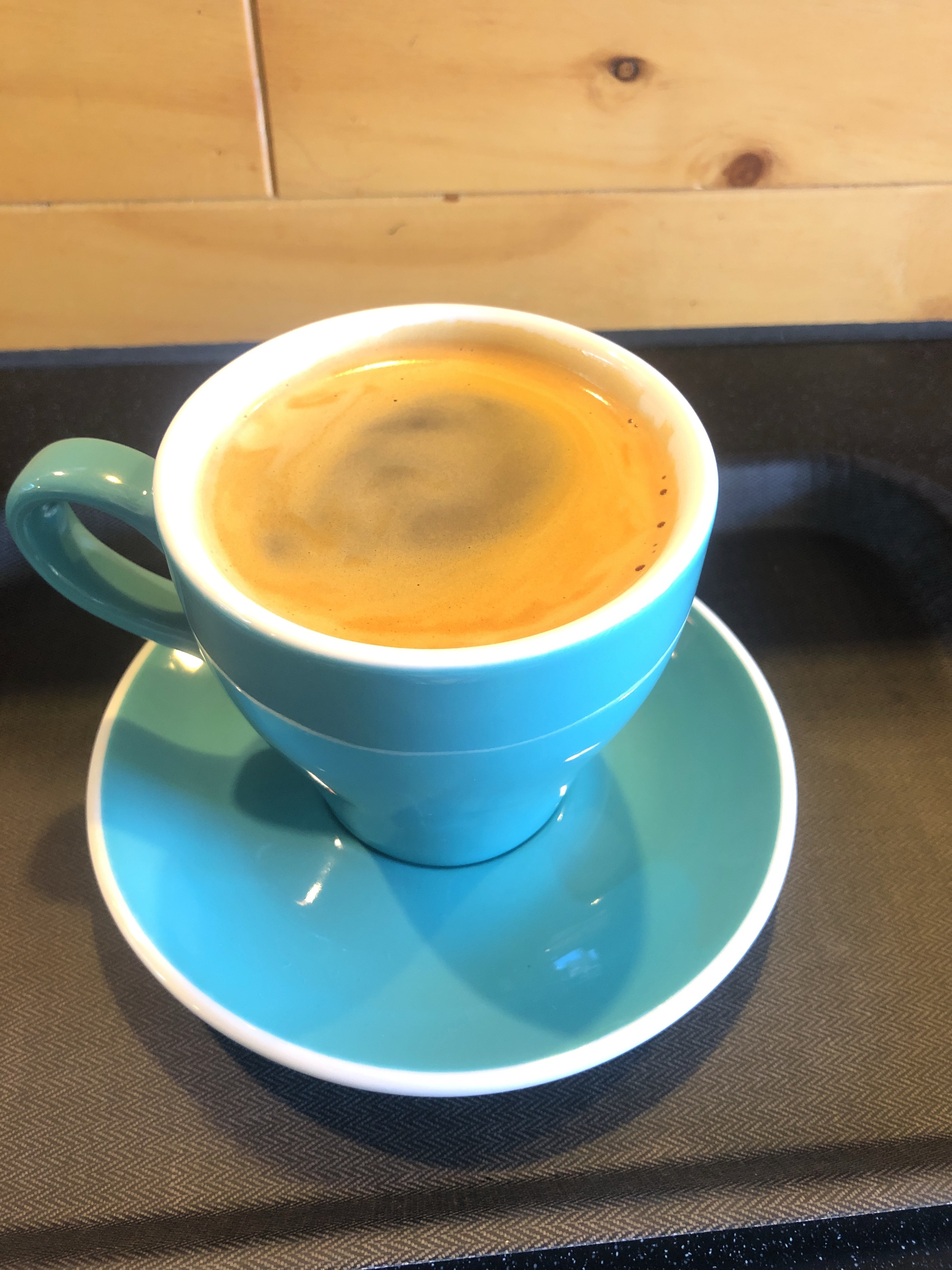 Long Black, in my customary Coffee shop